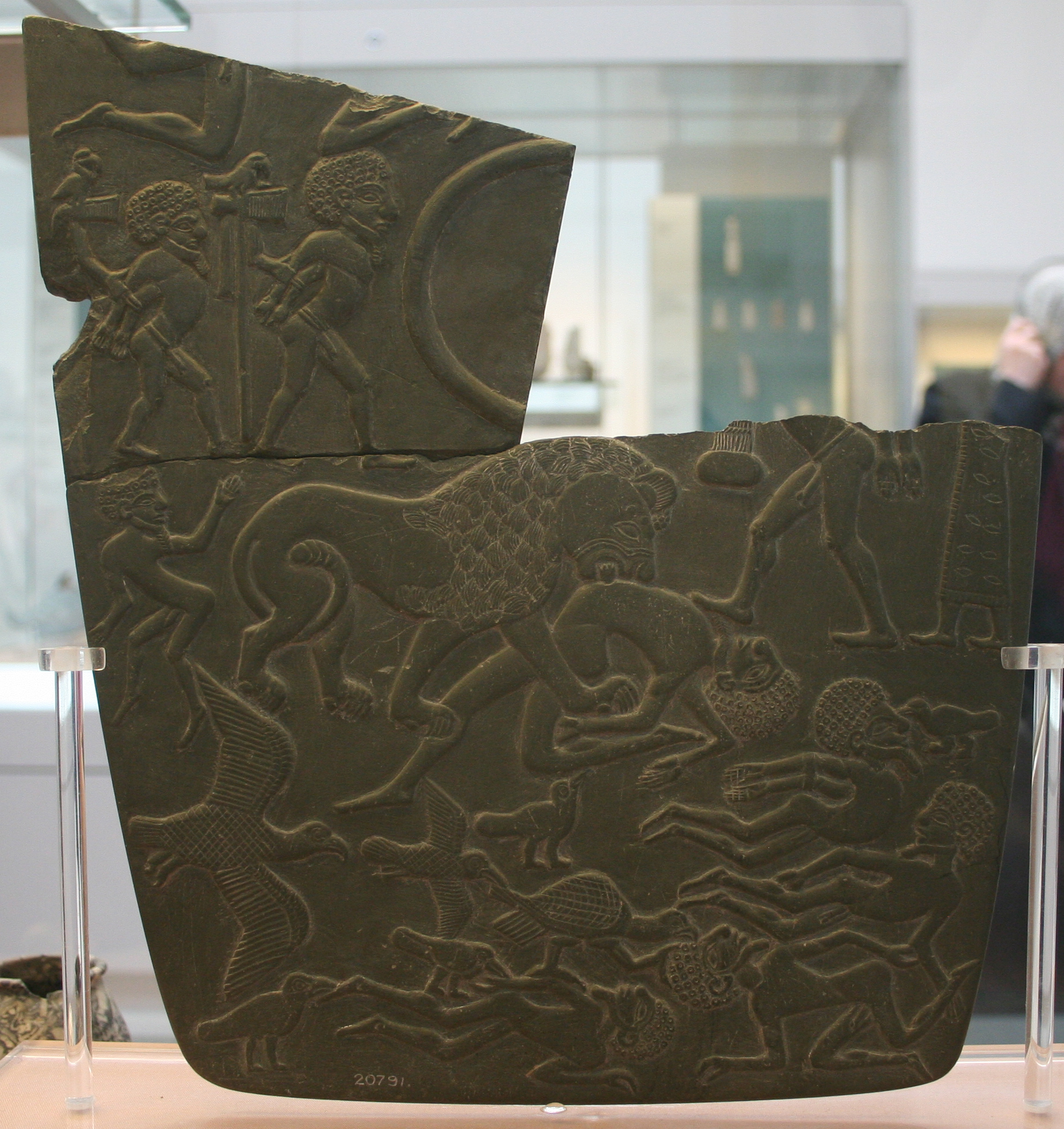 British Museum, London